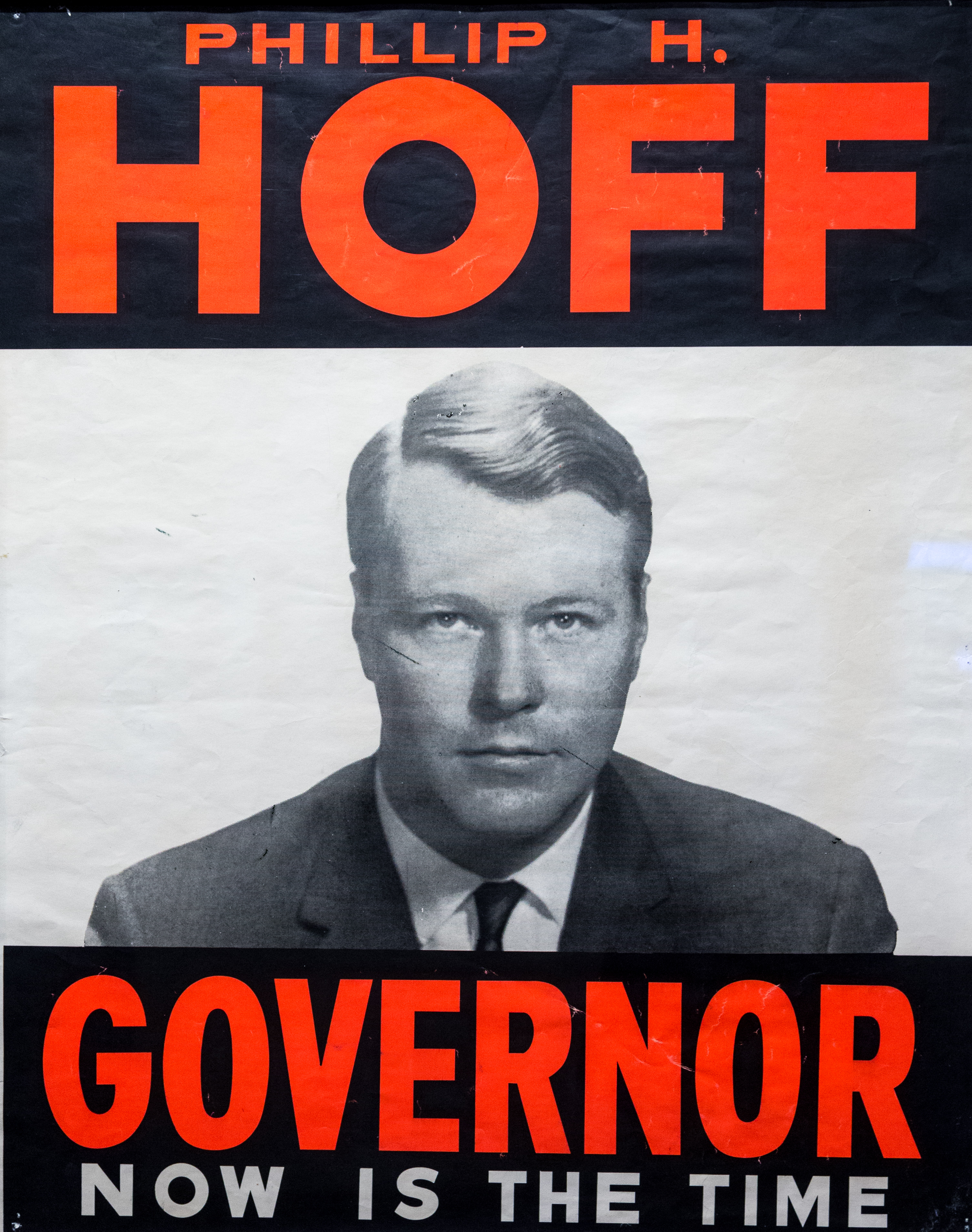 Phillip H. Hoff for Governor poster, from the Vermont Historical Society Museum, Montpelier Vermont. Note that the poster uses two "L"'s in PHILLIP, other sources use one.